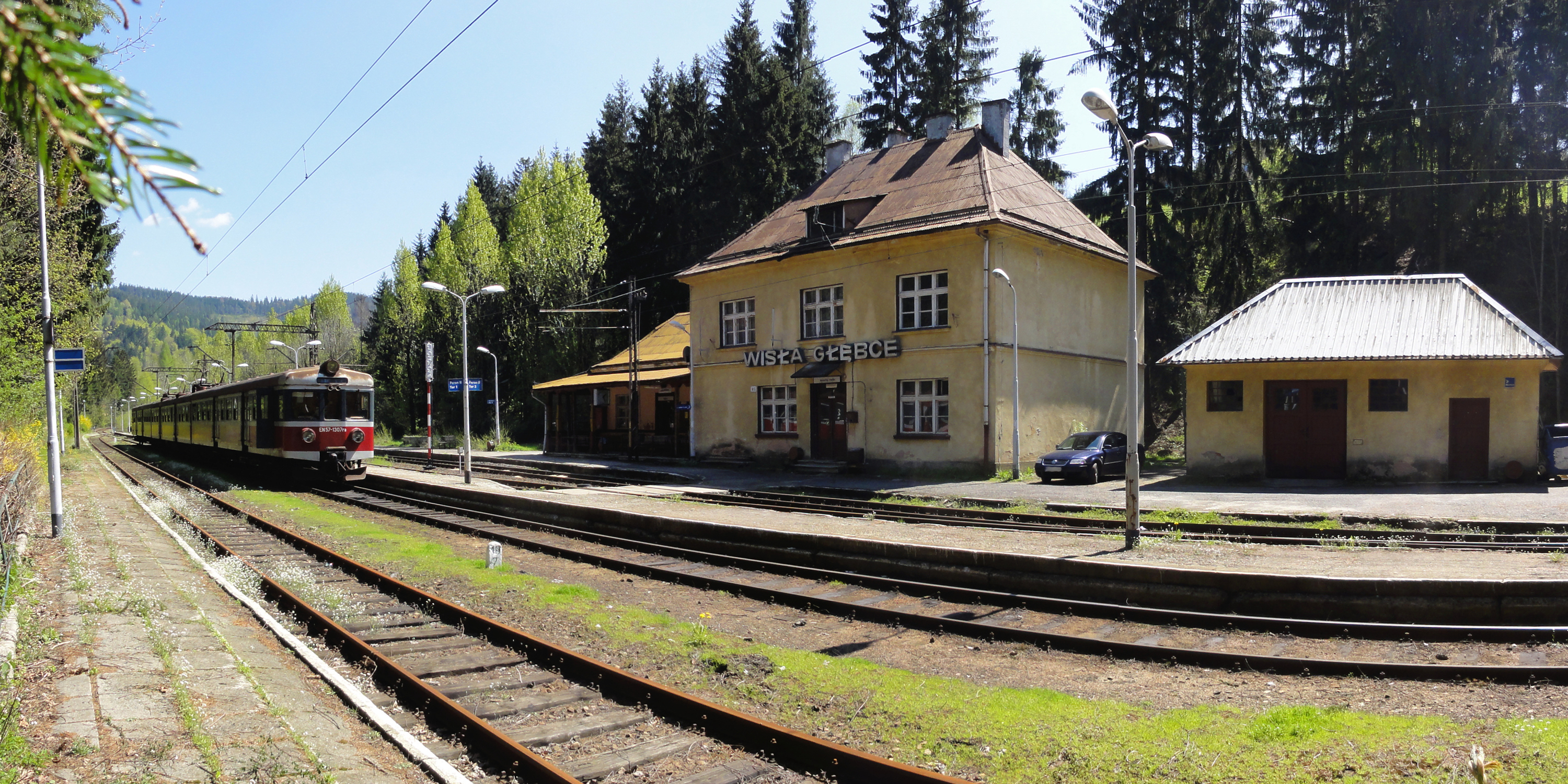 Wisła Głębce train station.